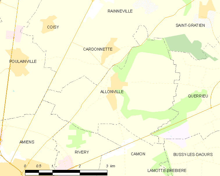 Map of French municipality Allonville